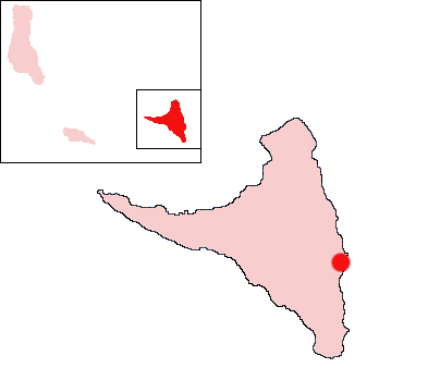 Domoni, Anjouan, Comoros Location Map; created with the GIMP. Made by User:Acntx.